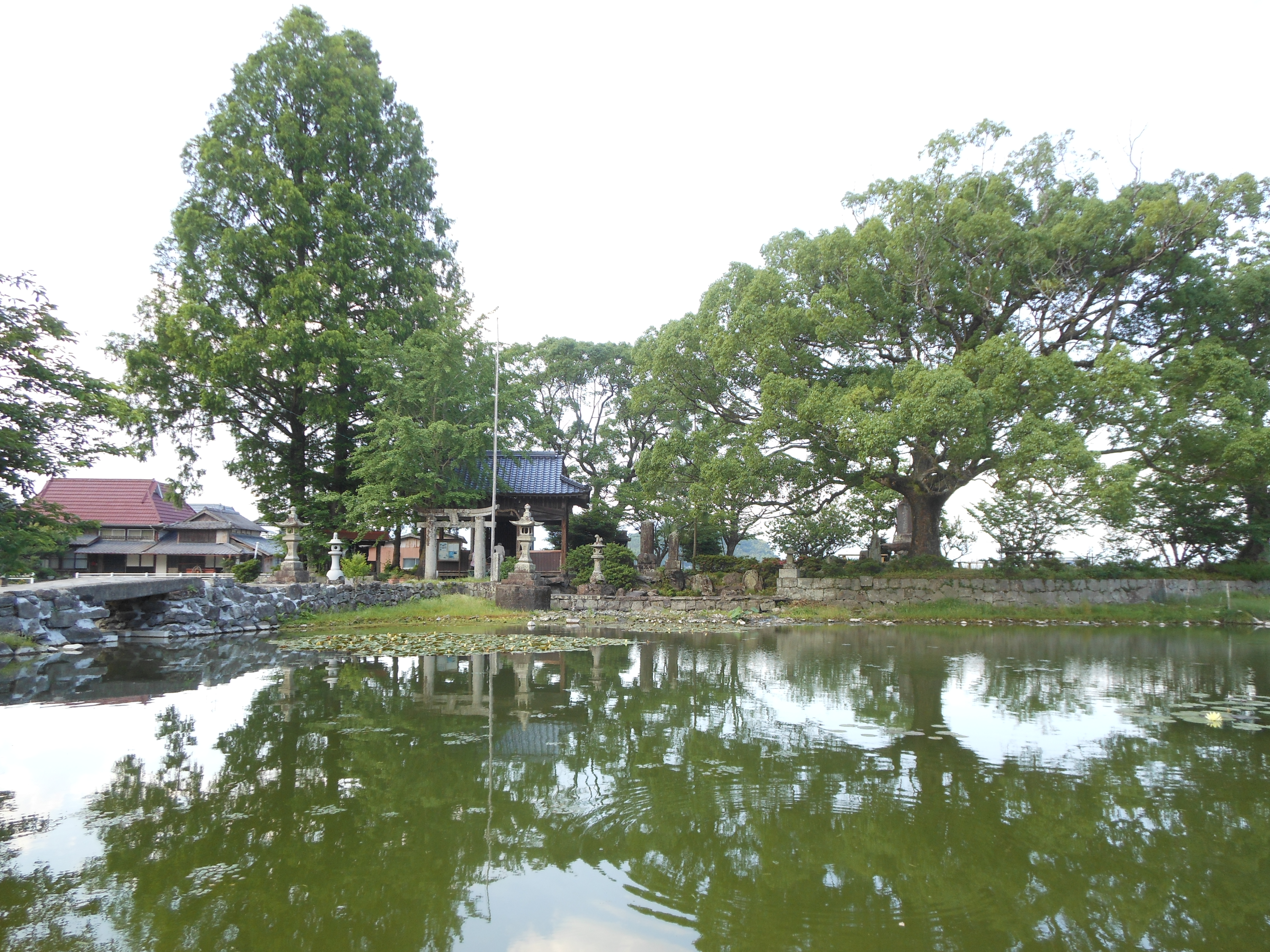 Nuinoike Pond and Itsukushima Shrine, trees in Shiroishi town, Saga prefecture.